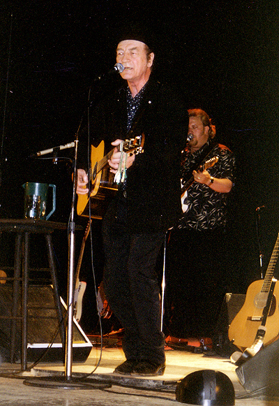 Stompin Tom Connors at the Peterborough Memorial Center in 2002